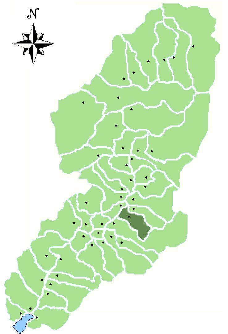 Map of the Comune di Niardo, Valle Camonica